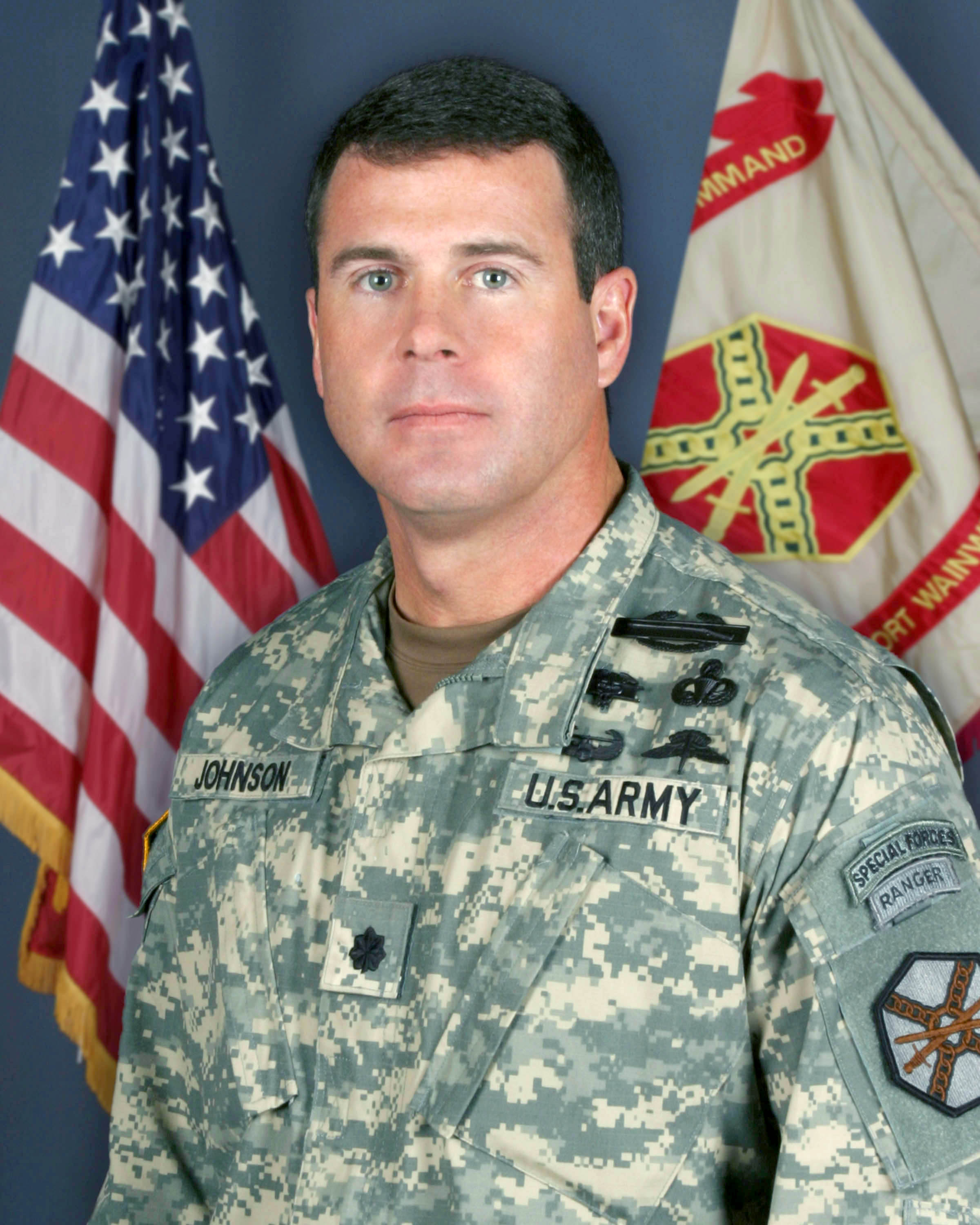 LTC Ronald M. Johnson, U.S. Army.